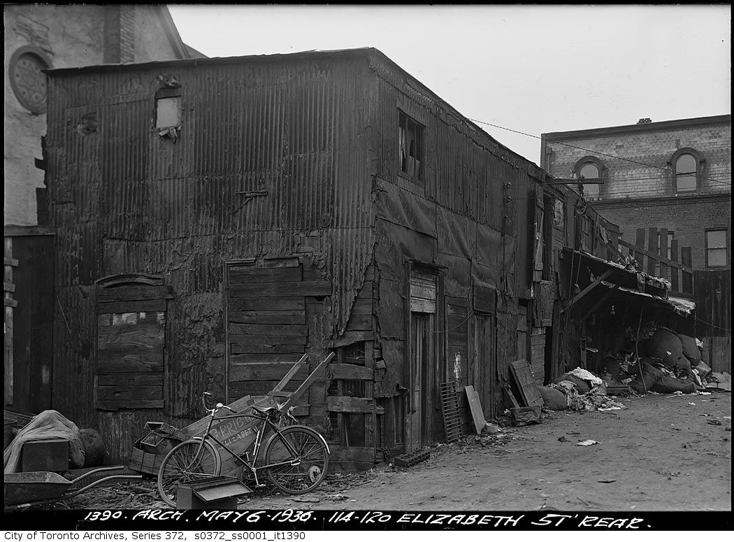 Photographer: Arthur Goss May 6, 1936 City of Toronto Archives Series 372, Subseries 1, Item 1390 This image is available from the City of Toronto Archives, listed under the archival citation Series 372, Subseries 1, Item 1390. This tag does not indicate the copyright status of the attached work. A normal copyright tag is still required. See Commons:Licensing for more information.